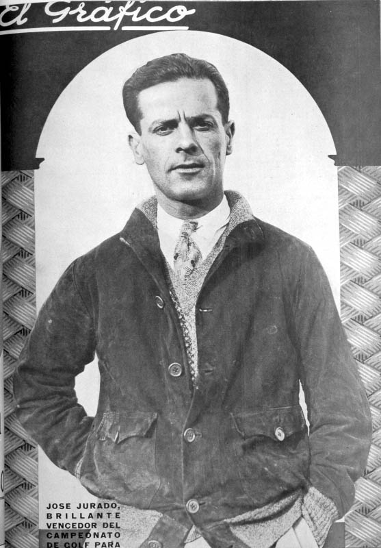 Argentine golfer, José Jurado, covered on El Gráfico, the most important sports magazine of South America.